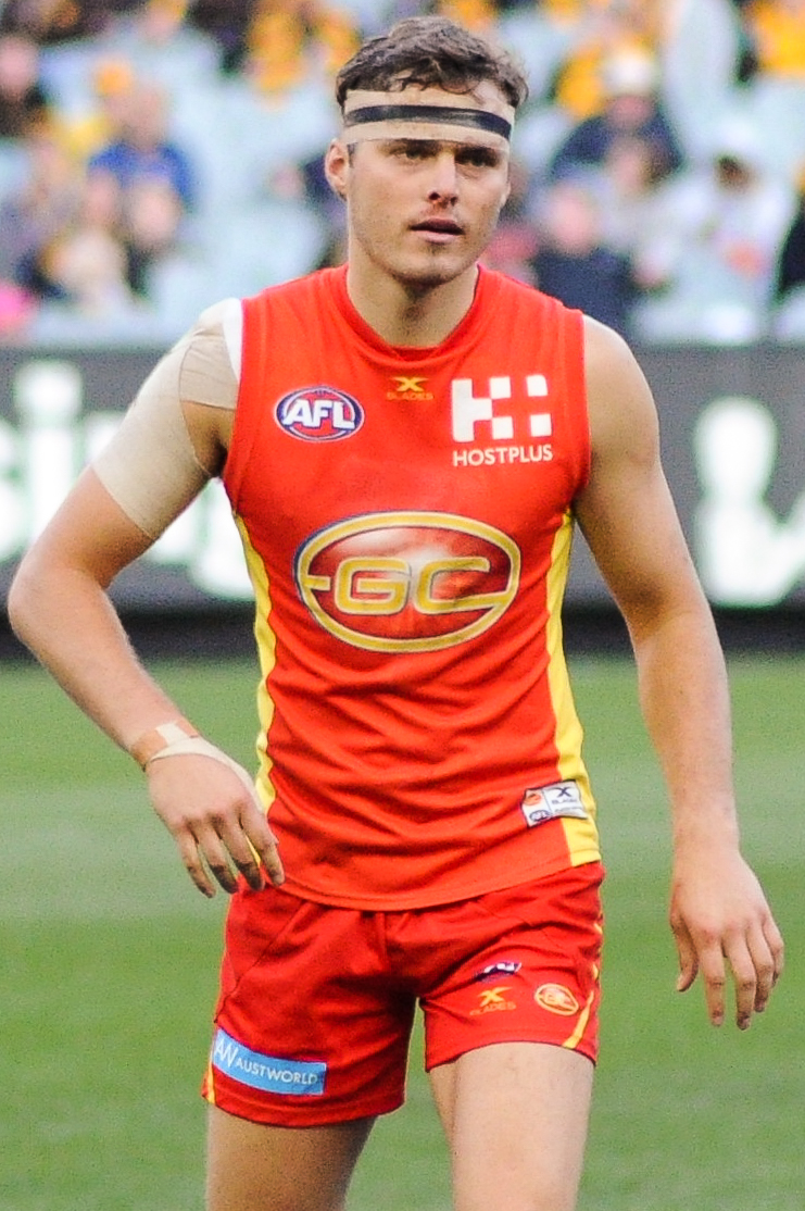 Kade Kolodjashnij during the AFL round twelve match between Melbourne and Collingwood on 10 June 2017 at the Melbourne Cricket Ground in Melbourne, Victoria.